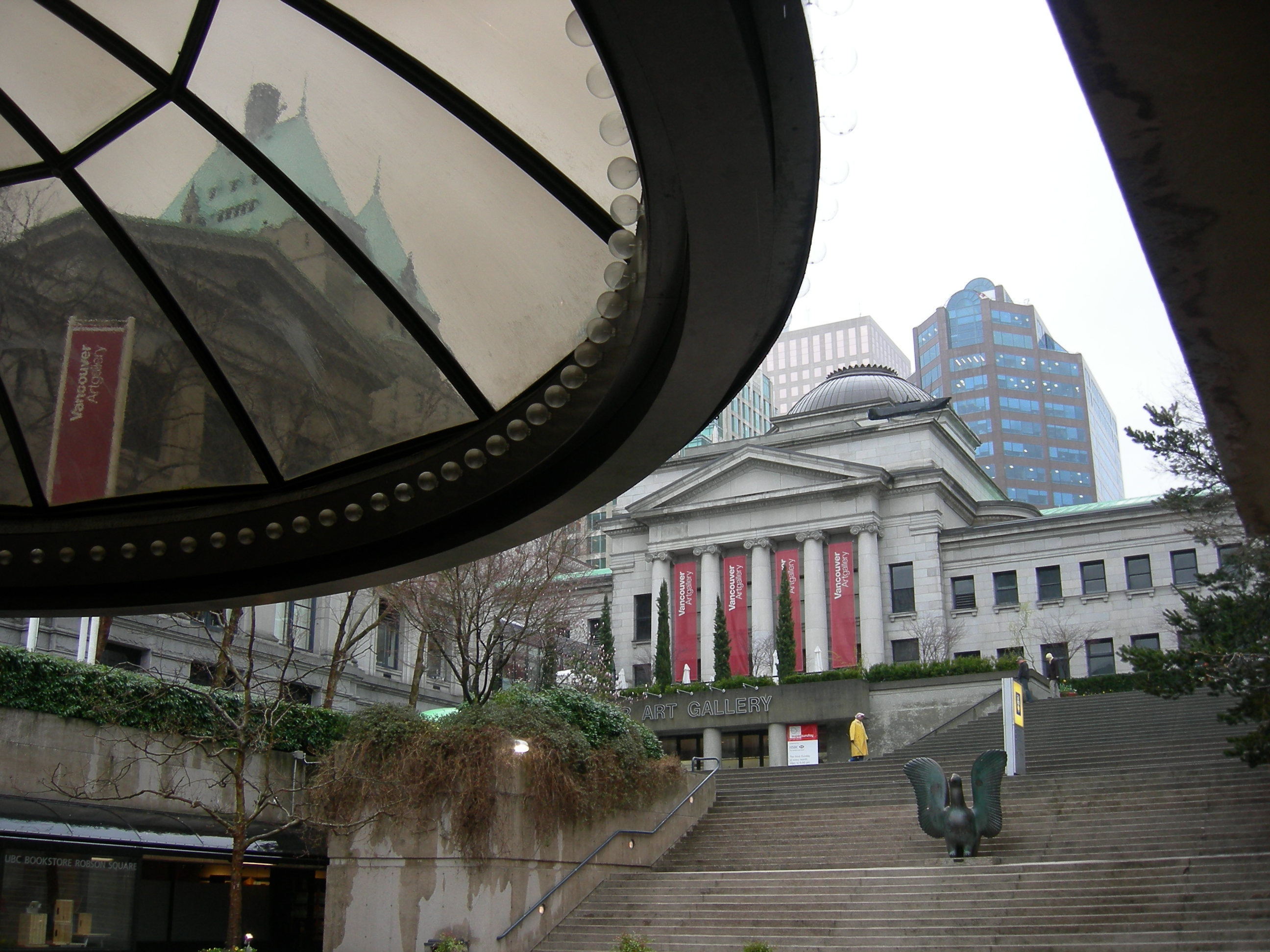 Vancouver Art Gallery, seen from below grade, Robson Square, Vancouver, British Columbia.